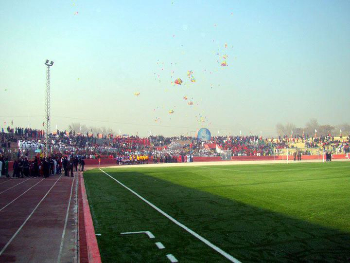 Ghazi Stadium in Kabul Afghanistan. On December 15 2011, the Afghan Olympic Committee celebrated the re-opening of the newly renovated Ghazi Stadium in Kabul, with its new grass pitch